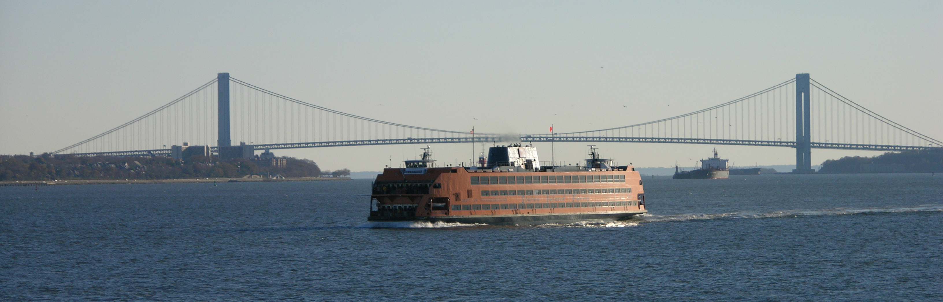 A wide shot of the Verrazano Narrows Bridge from the Staten Island Ferry.